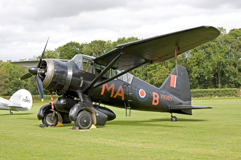 Westland Lysander at the Shuttleworth Air Show 2009